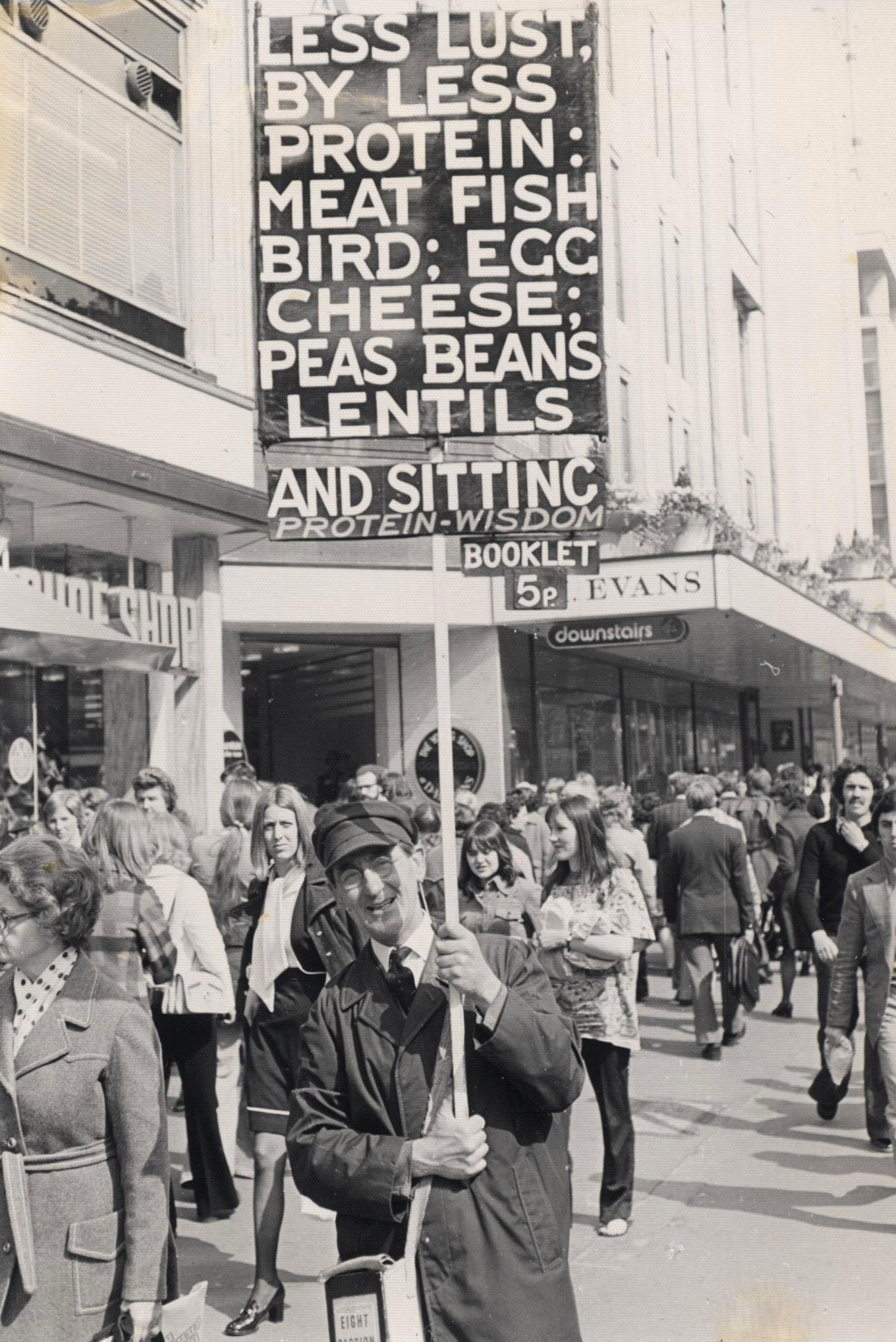 Stanley Green, Oxford Street, London, near the DH Evans Department store, photographed by Sean Hickin in 1974.